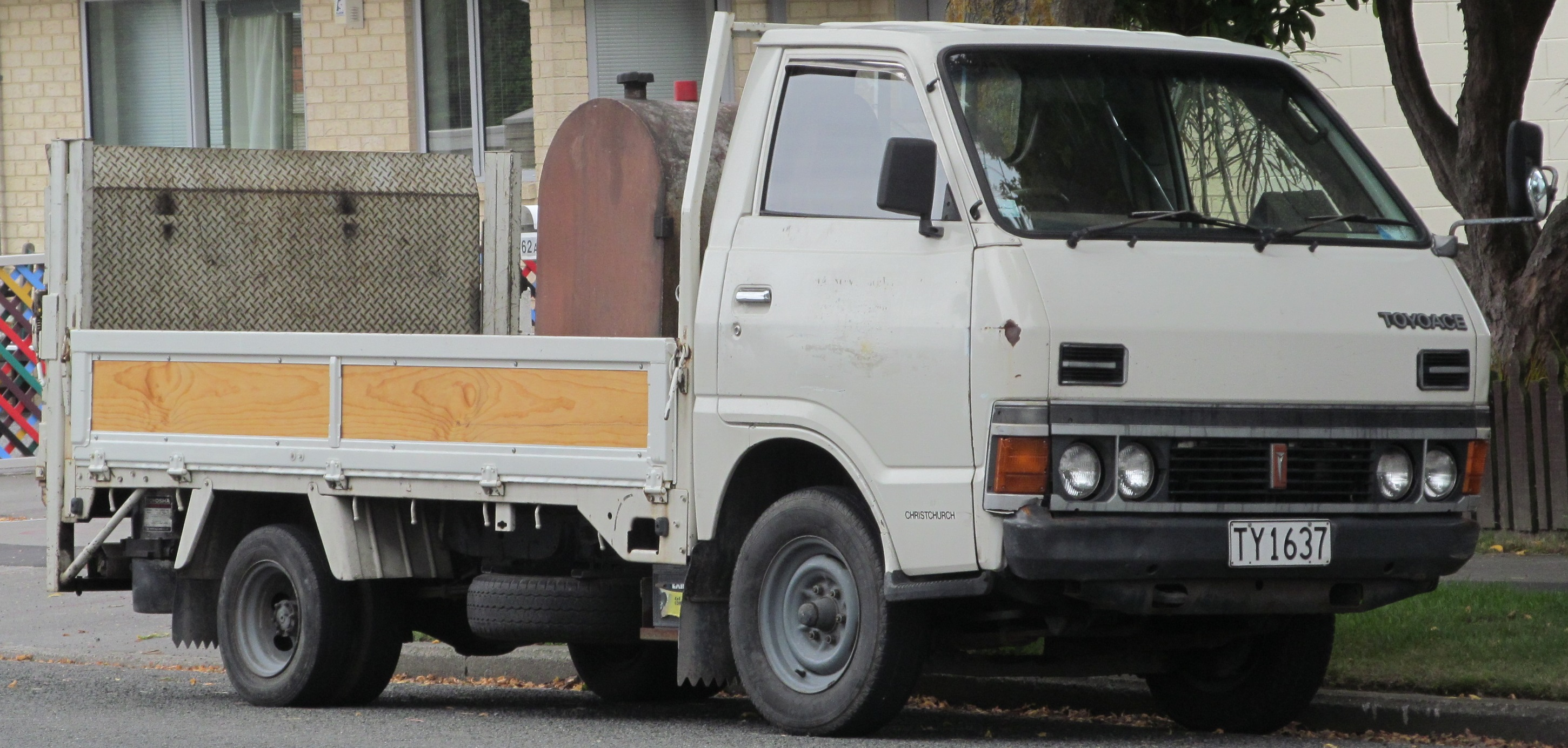 1984 Toyota ToyoAce (third generation)